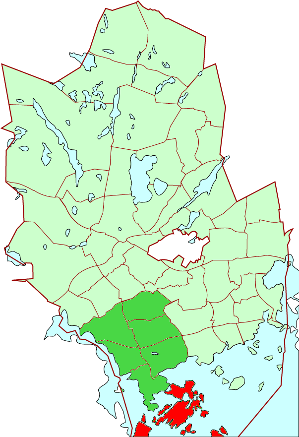 Suvisaaristo/Sommaröarna district in Espoo city, Finland